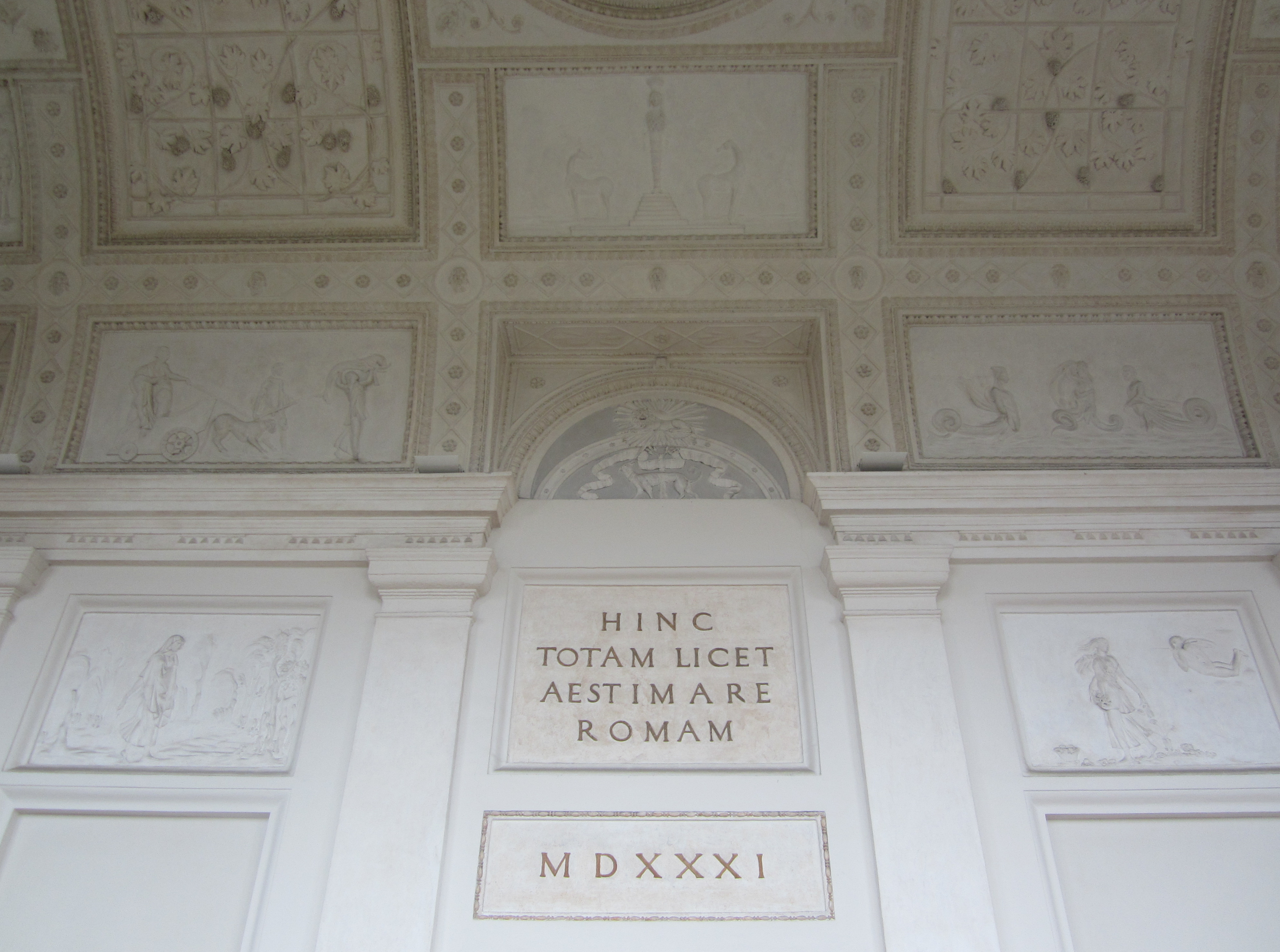 Inscription "Hinc totam licet aestimare Romam. MDXXXI" ("From here you can admire the whole of Rome. 1531"). Villa Lante, Rome. Shortened quotation from an epigram by Martialis.